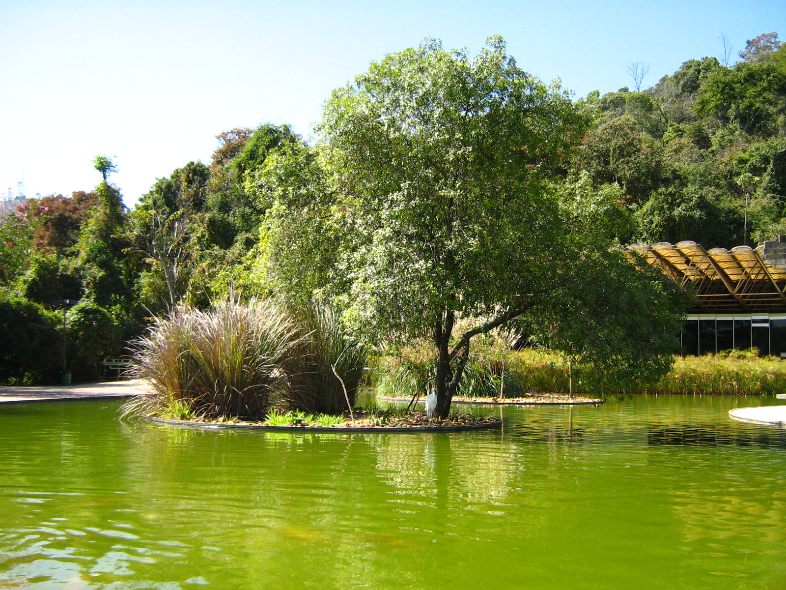 Parque das Mangabeiras @ Belo Horizonte, Minas Gerais.